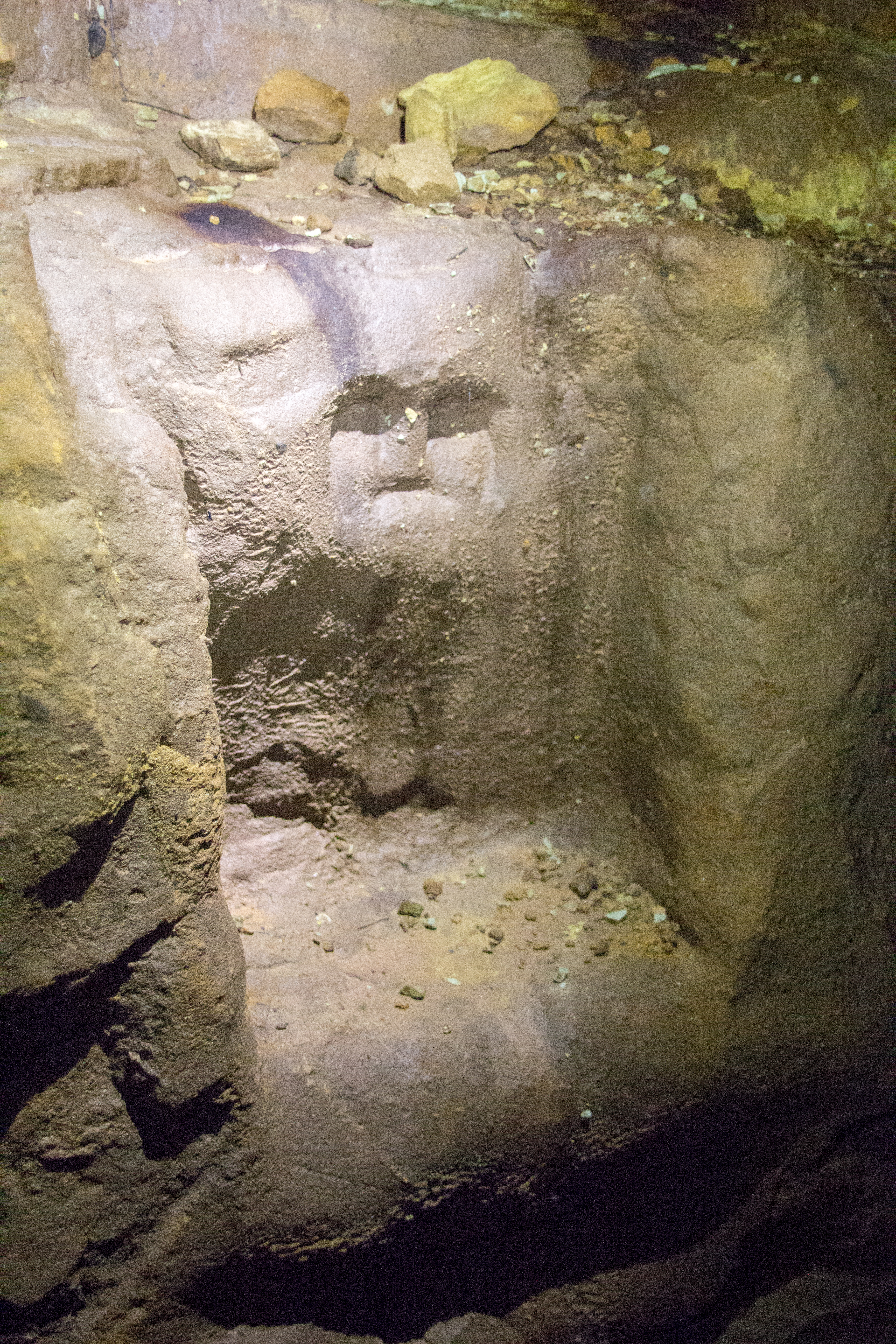 Engine Vein, Alderley Edge Mines, United Kingdom